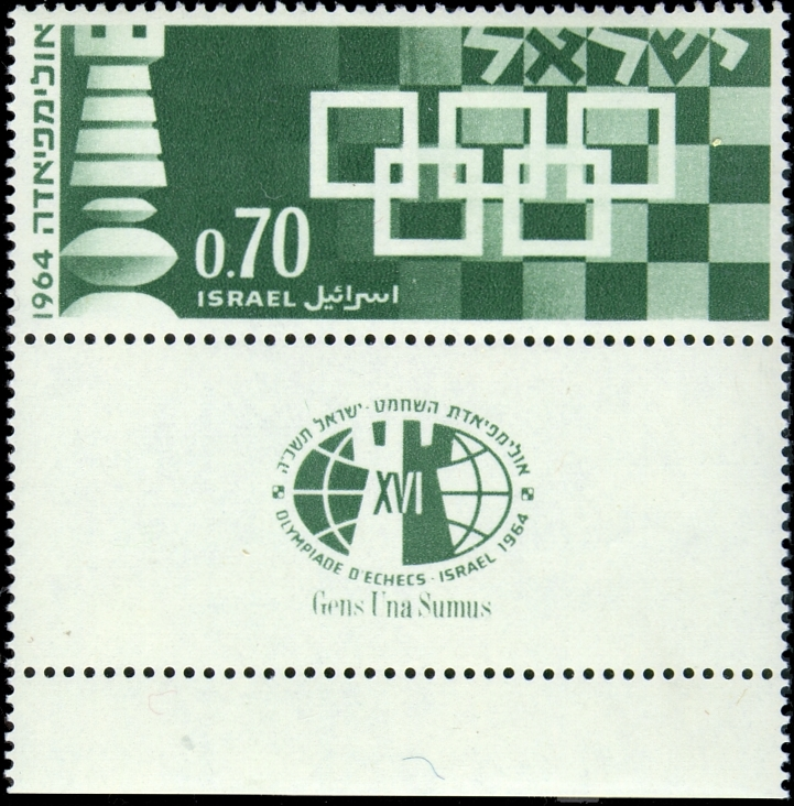 A stamp marking the 16th Chess Olympiad